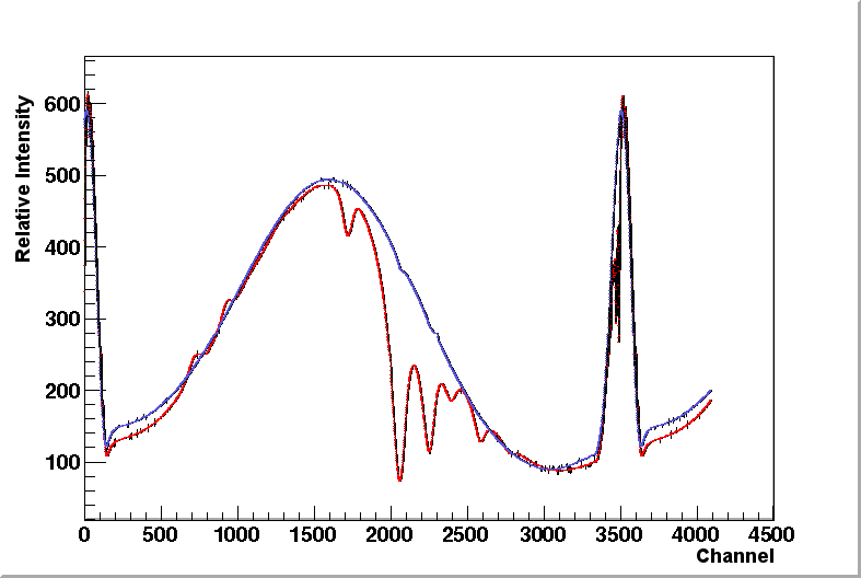 The relative absorption of an infrared laser in Rubidium with and without a pump-beam applied. Used to demonstrate doppler-free saturation spectroscopy. In the red line's profile you can see the hyperfine-structure of the first excited level of rubidium